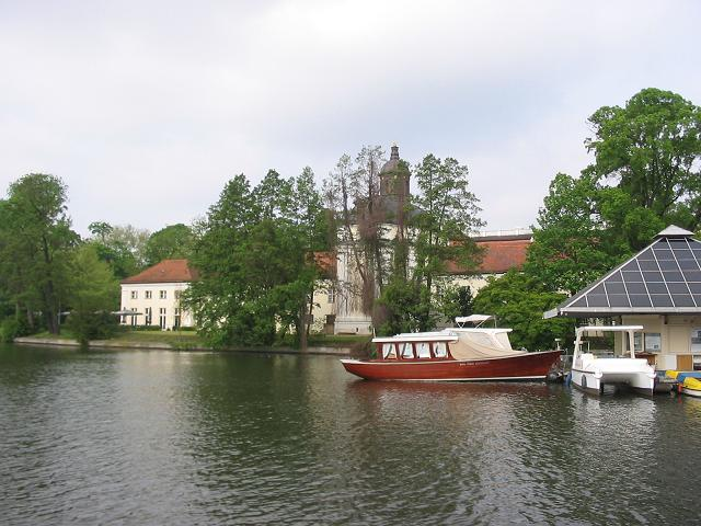 the Frauentrog, a sidearm of the river Dahme, with the Schlossinsel and the Schloss Köpenick in Berlin-Köpenick.